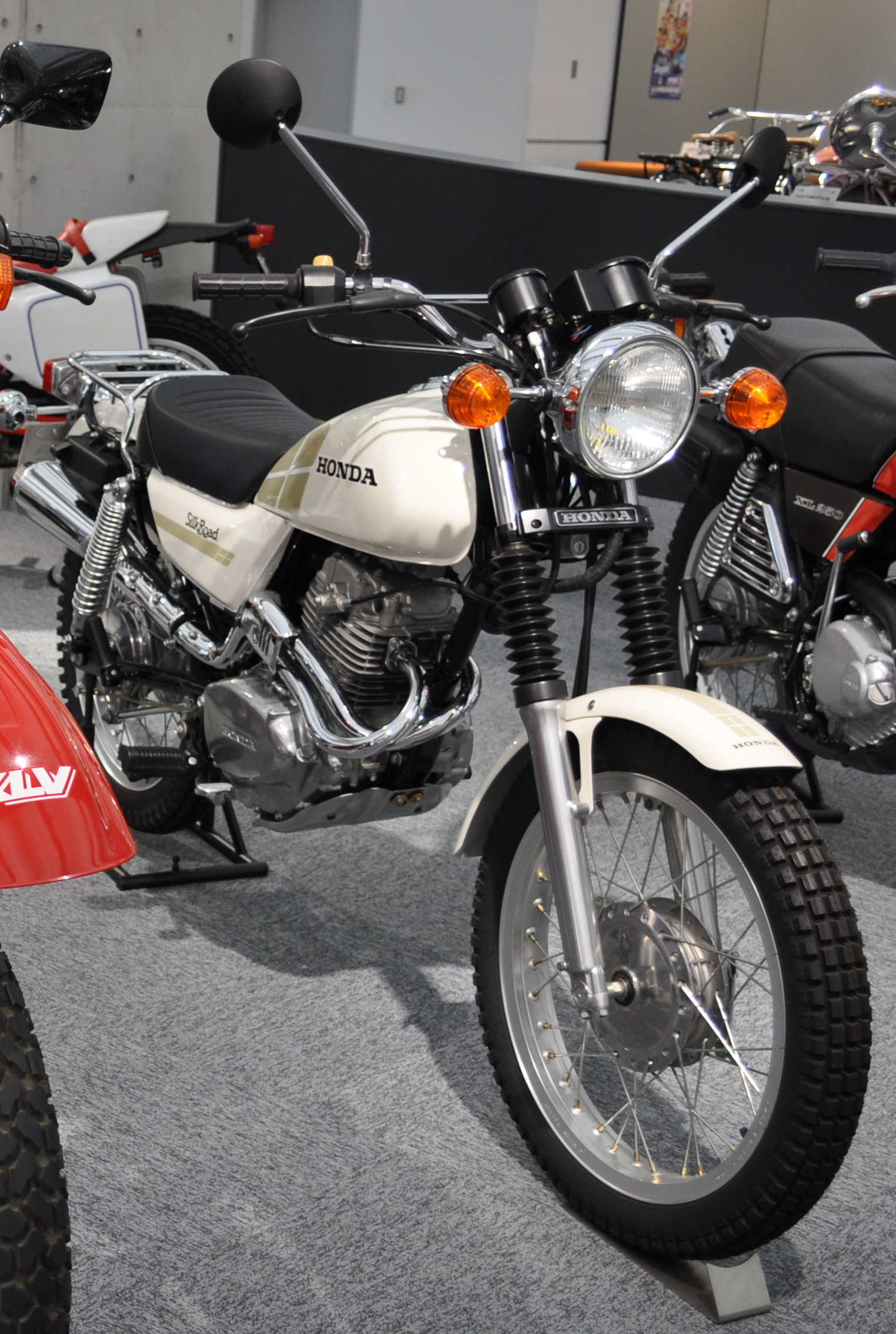 Honda CT250S Silkroad (1981)